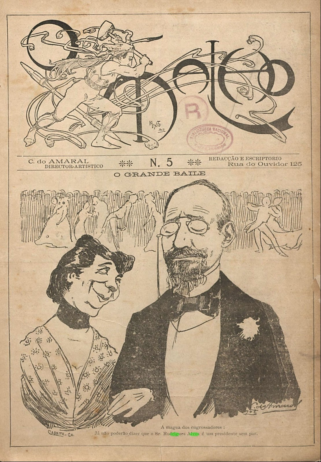 Caricature of Brazilian President Rodrigues Alves and his daughter Catita Alves in 1902. Drawing by Crispim do Amaral, died in 1911.